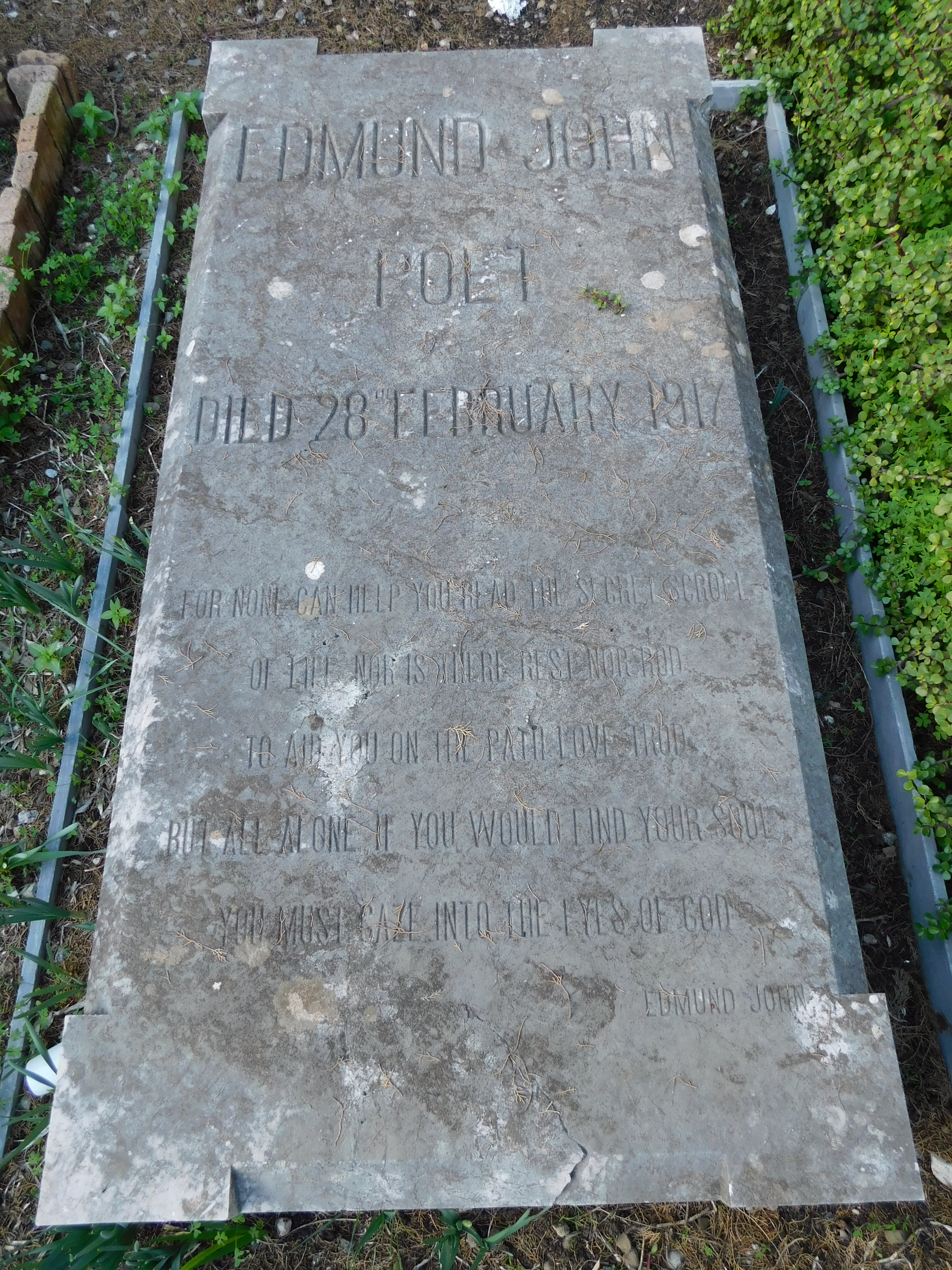 The grave of Edmund John ( Poet ) Taormina,Sicilly